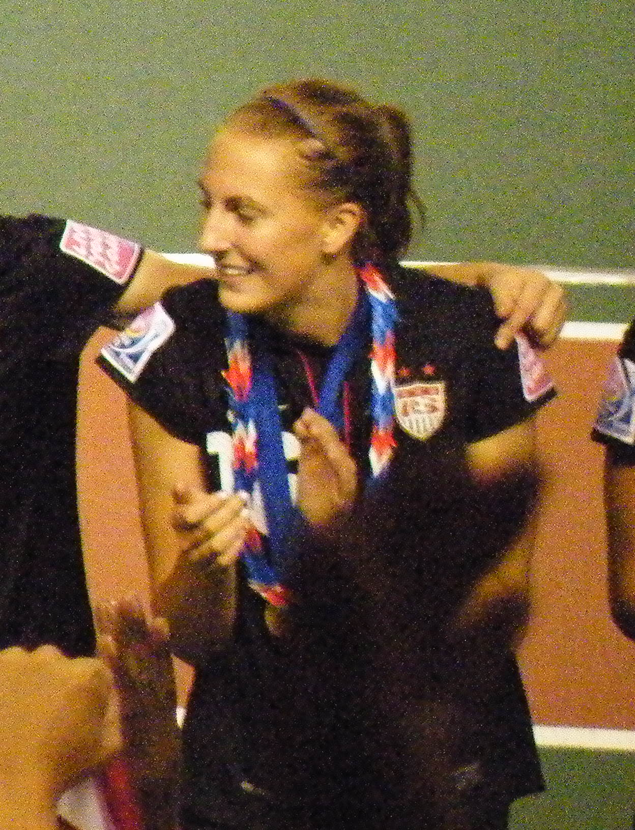 FIFA U-20 Women's World Cup 2012 Awards Ceremony; 16—Sarah Killion